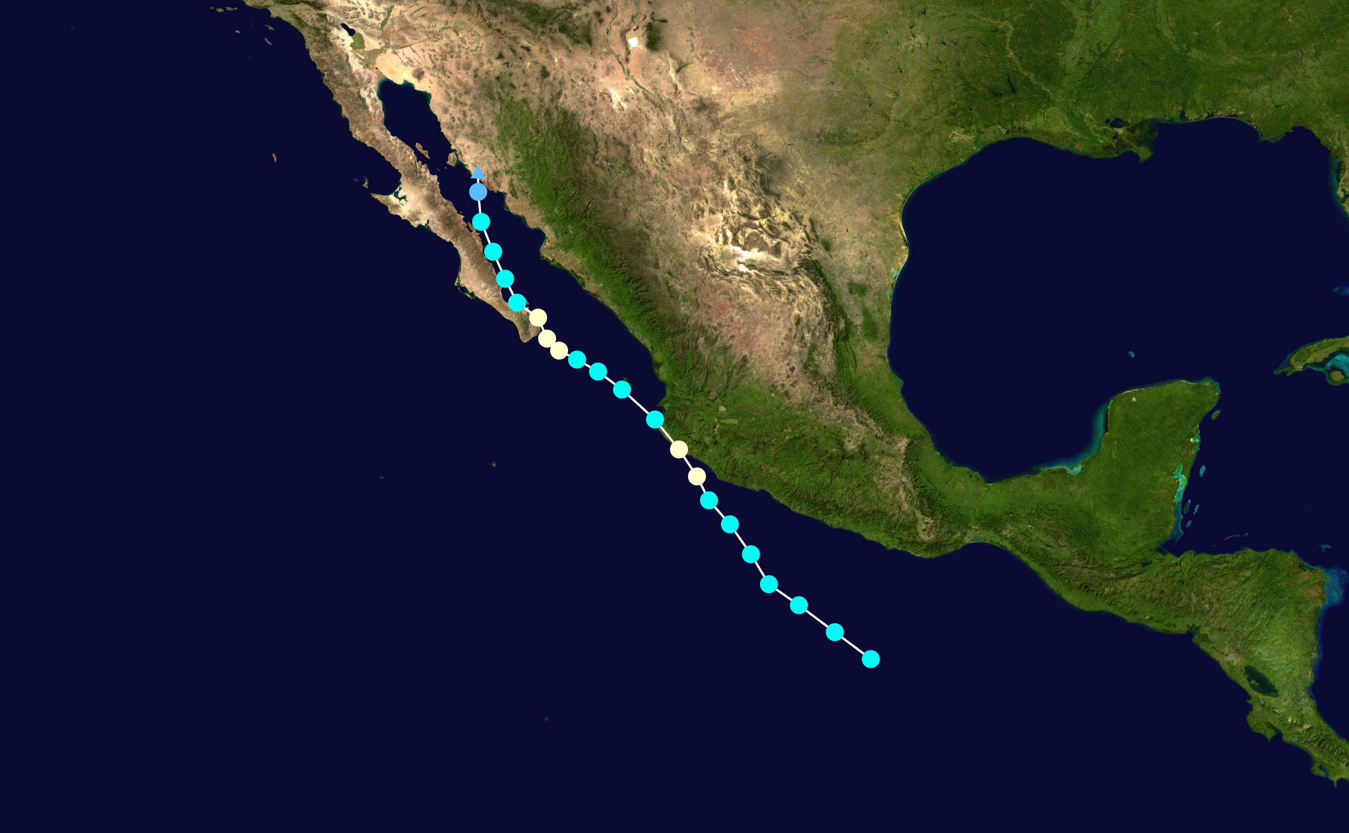 Track map of Hurricane Lorena of the 2019 Pacific hurricane season. The points show the location of the storm at 6-hour intervals. The colour represents the storm's maximum sustained wind speeds as classified in the Saffir–Simpson scale (see below), and the shape of the data points represent the nature of the storm, according to the legend below. Saffir–Simpson scale Tropical depression≤38 mph≤62 km/h Category 3111–129 mph178–208 km/h Tropical storm39–73 mph63–118 km/h Category 4130–156 mph209–251 km/h Category 174–95 mph119–153 km/h Category 5≥157 mph≥252 km/h Category 296–110 mph154–177 km/h Unknown Storm type Tropical cyclone Subtropical cyclone Extratropical cyclone / Remnant low / Tropical disturbance / Monsoon depression